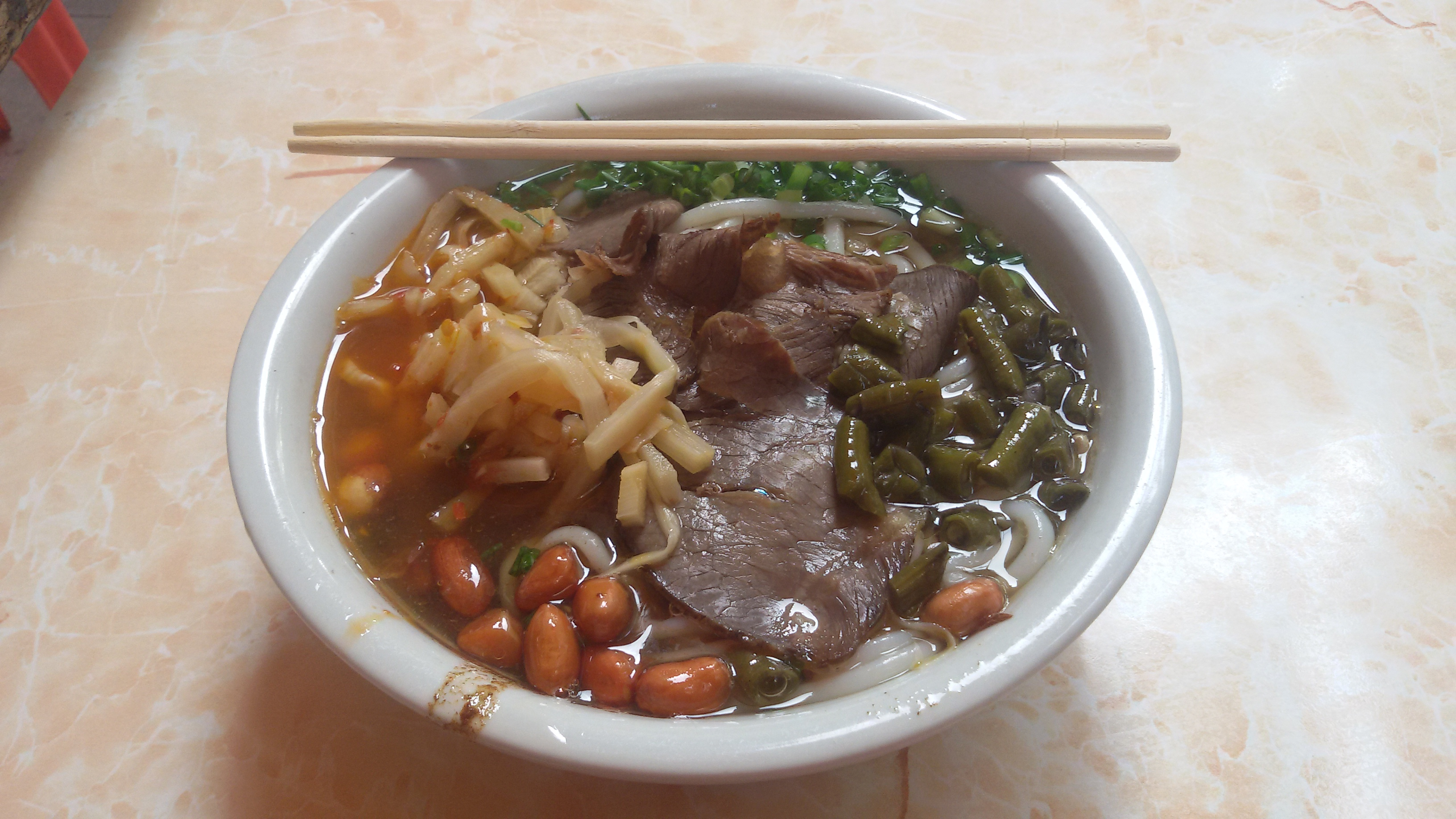 Guilin Rice Noodle